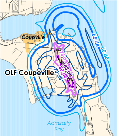 Map showing sound from Naval Outlying Field Coupeville